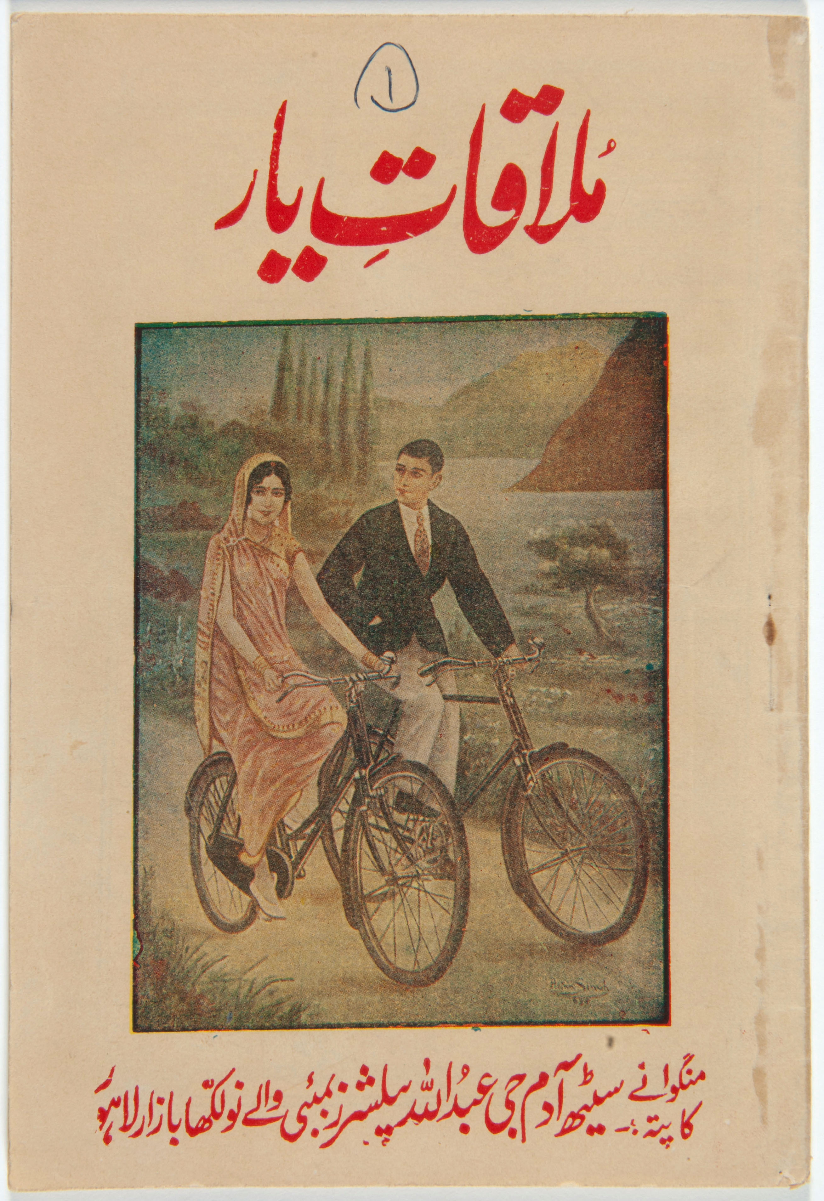 Collected by Josephine Powell.